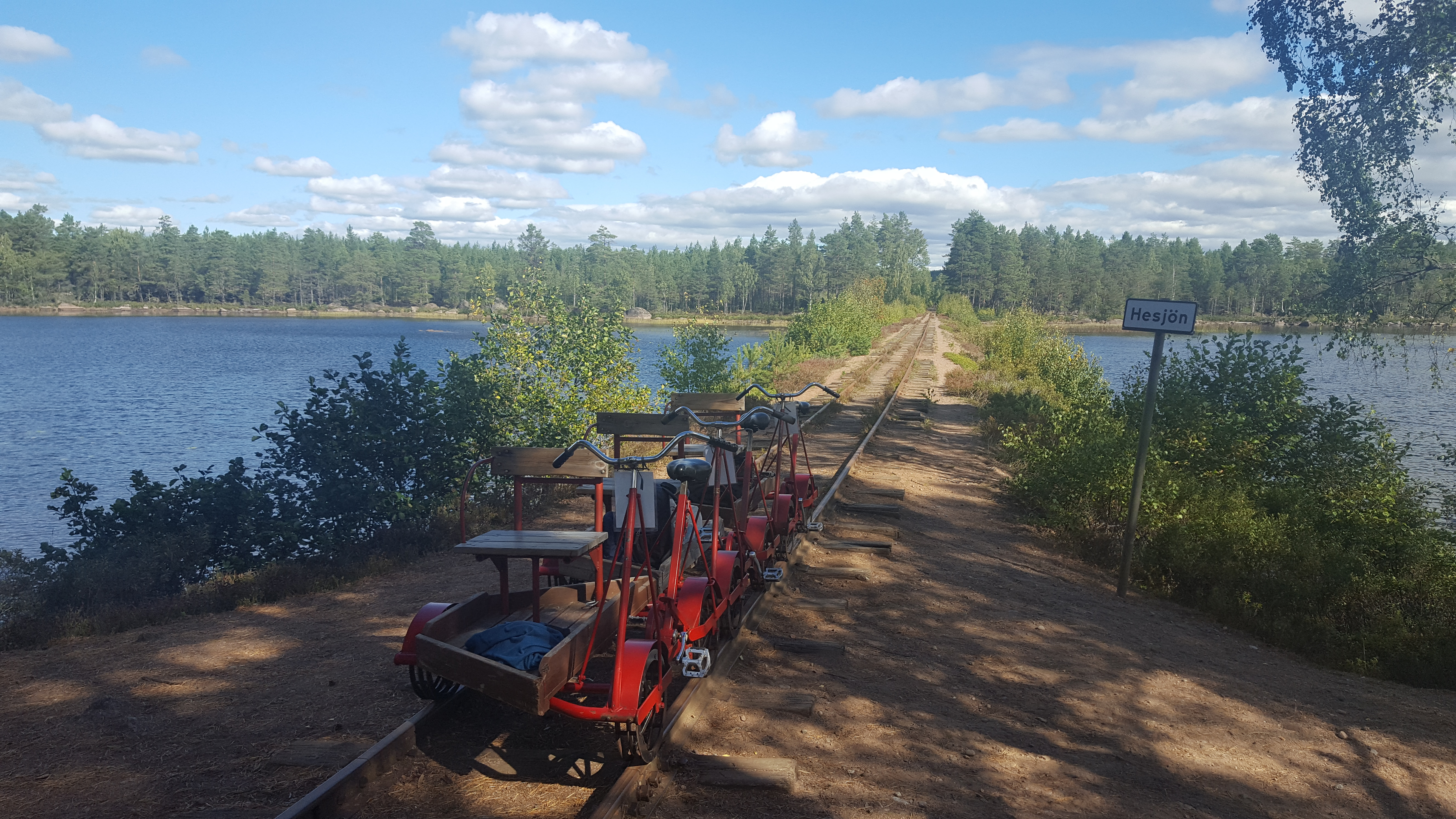 A former Växjö–Åseda–Hultsfred railway passing through a dam on the Hesjön lake in Sweden. The tracks are used for rail-cycling.